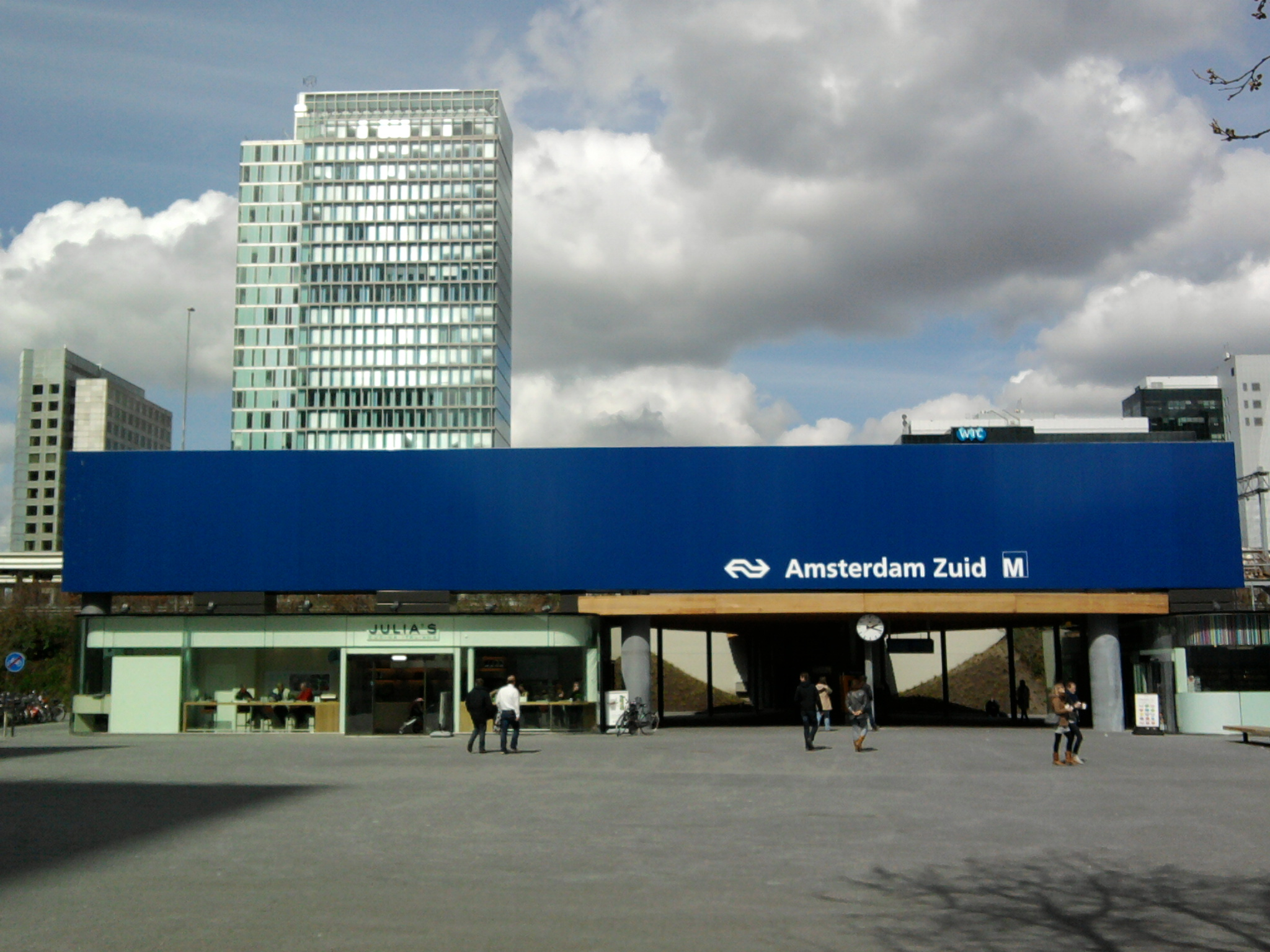 Station Amsterdam Zuid, as seen from the Gustav Mahlerplein